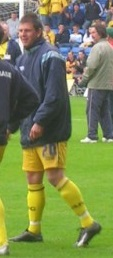 Jamie Brooks. Image cropped from original at flickr.